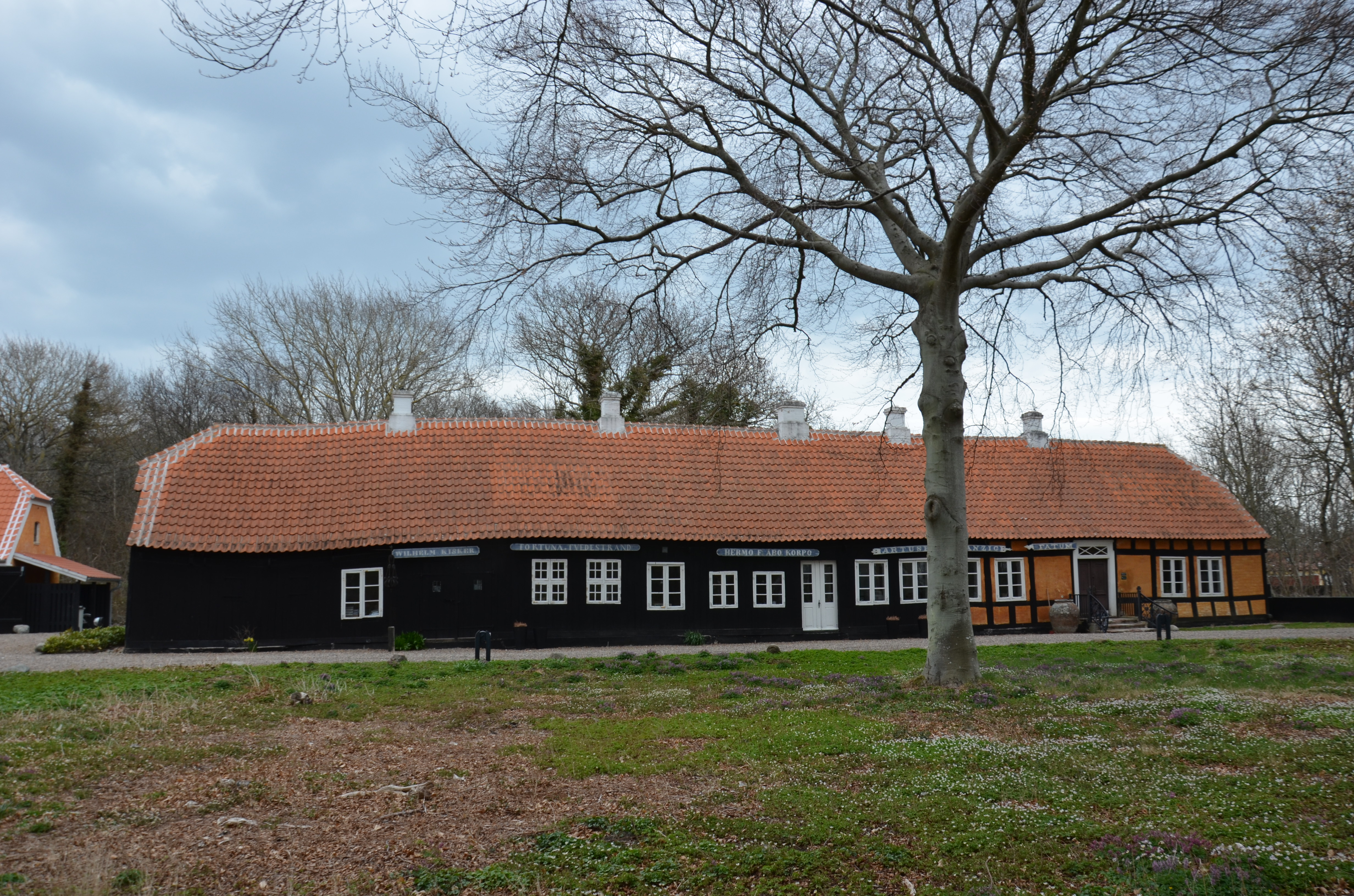 Kröyers Hus, Byfogedgårdens östra länga, Skagen